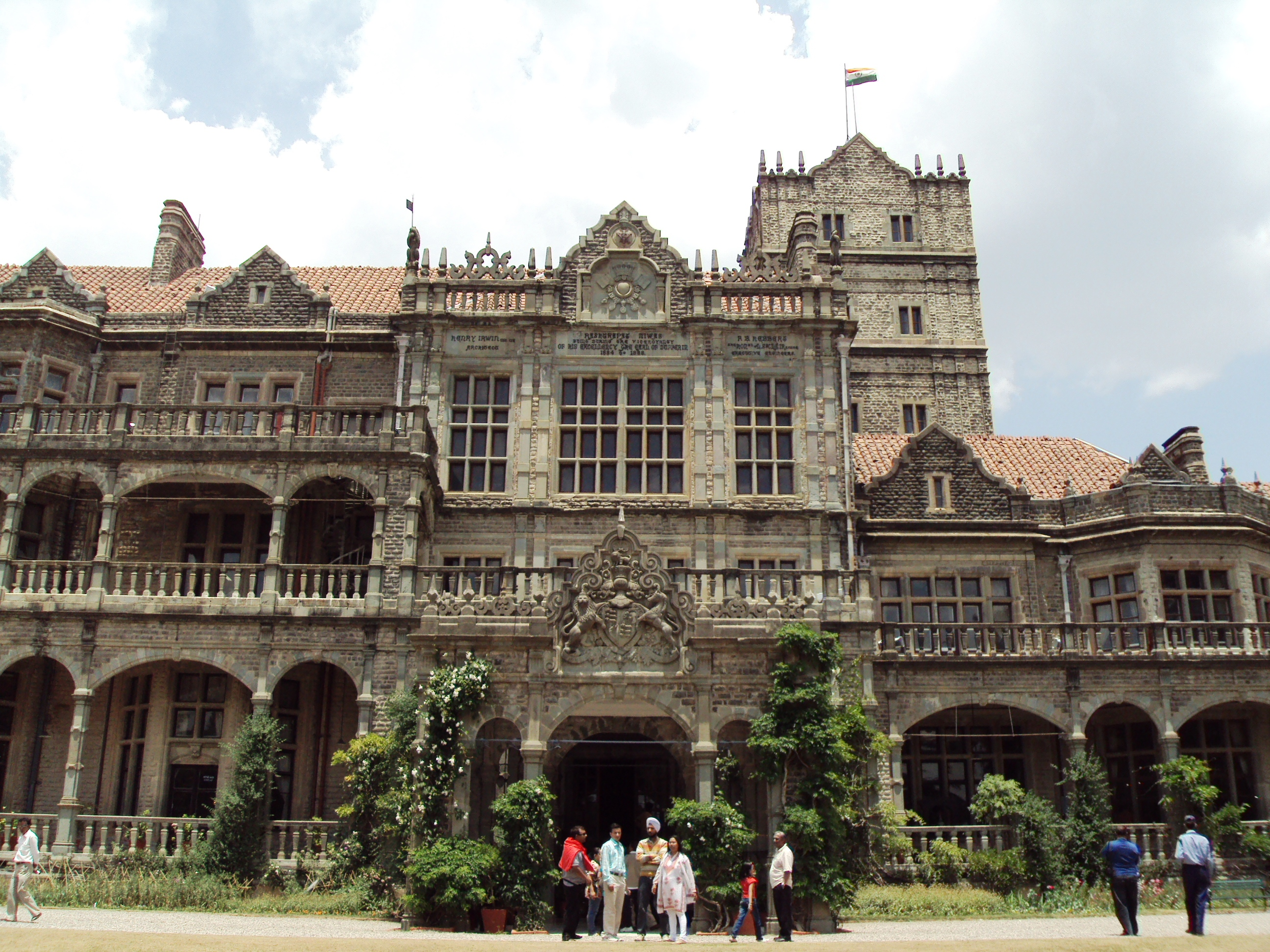 Front-view of the Indian Institute of Advanced Studies,Shimla,May 2009.